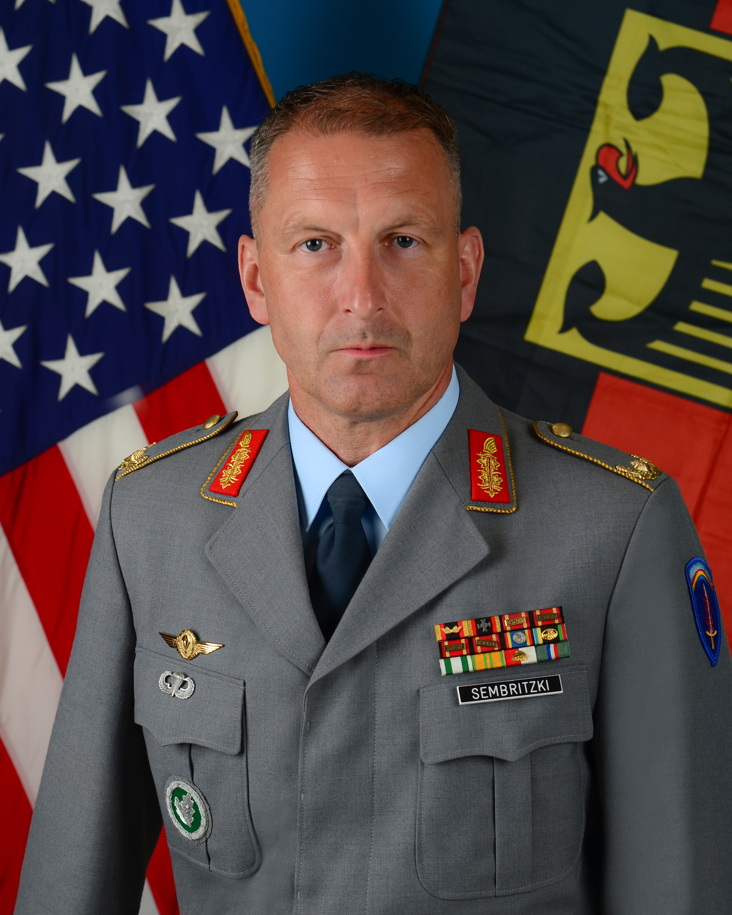 Brigadier General Jared Sembritzki of the German Army as International Chief of Staff of the United States Army Europe